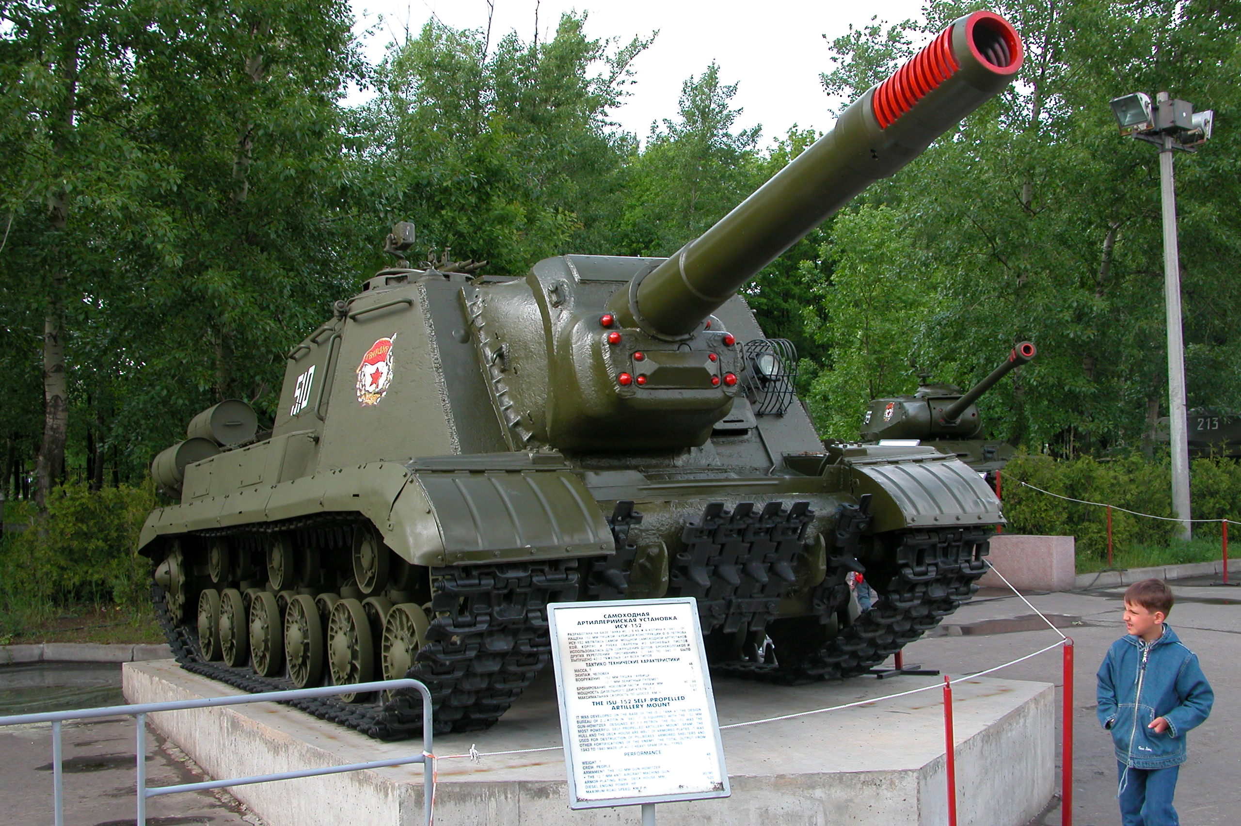 This ISU-152 is on display in Victory Park, Moscow. Photo taken in June 2004.